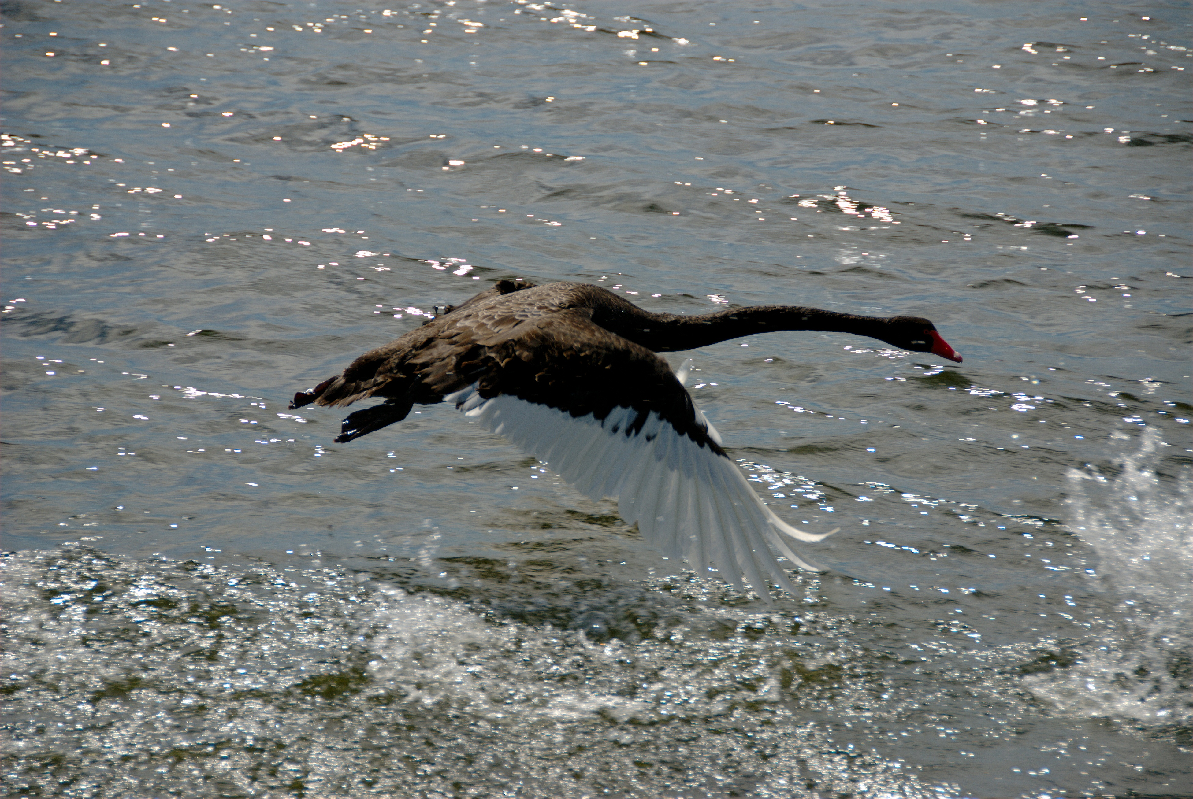 Australian Black Swan (Cygnus atratus) taking off from Lake Pupuke